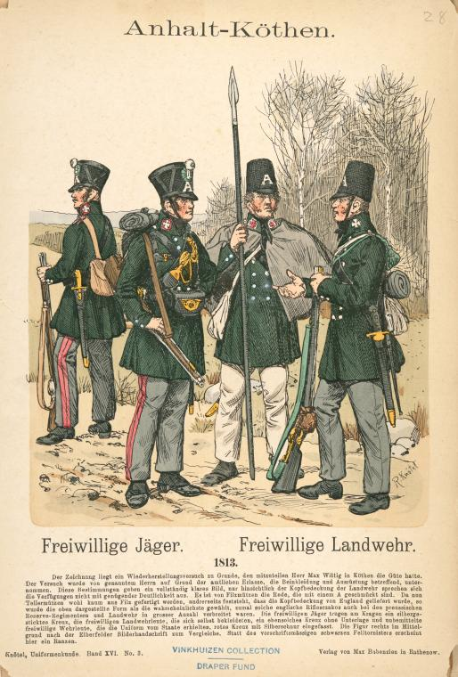 Anhalt-Köthen. Landwehr-Uniforms 1813